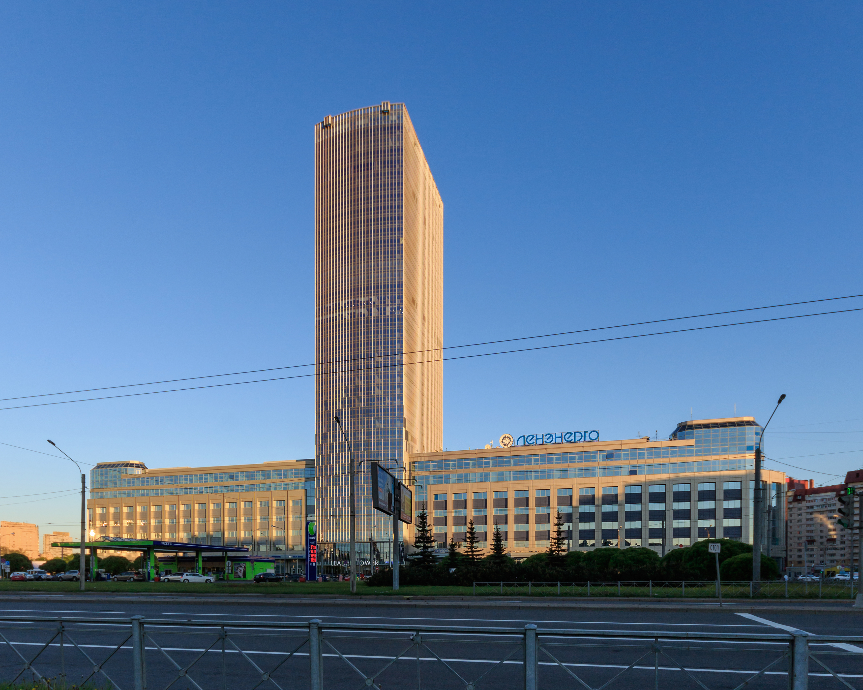 The Leader Tower in Saint Petersburg (Russia).